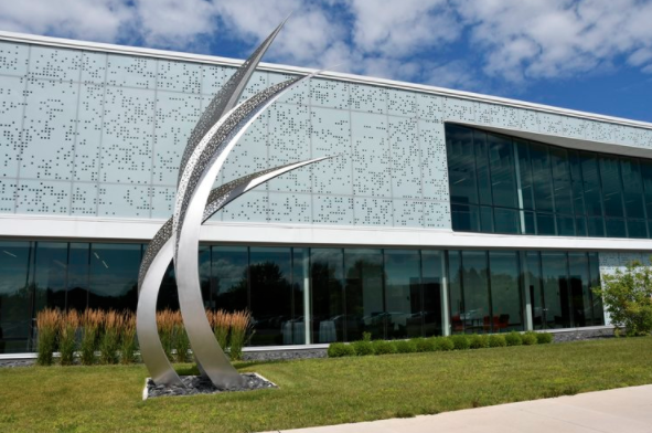 Osmonde, 2015, Centrexpo Cogeco, Drummondville